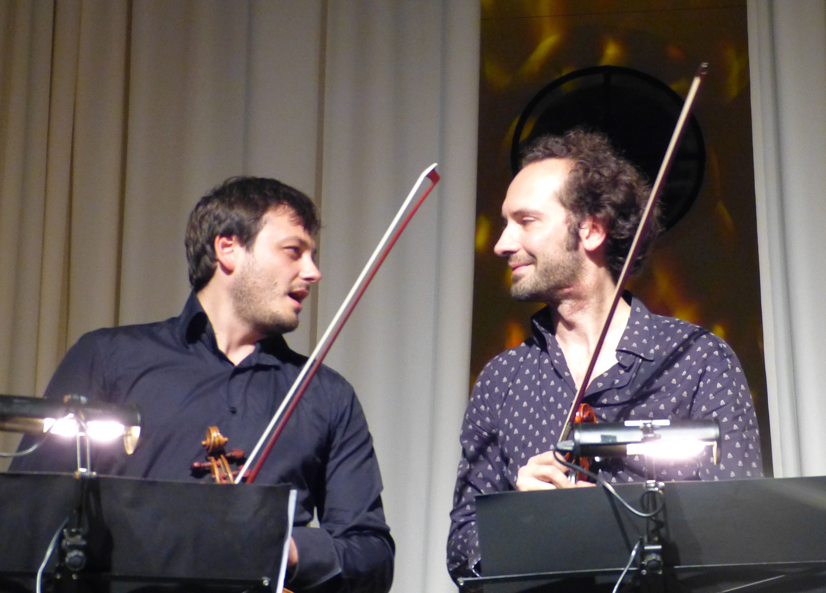 Maxim Rysanov at a concert in June 2012